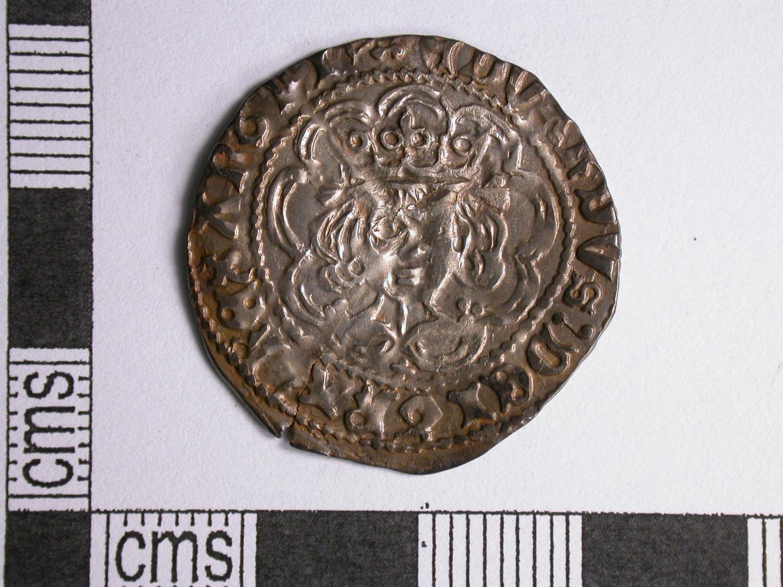 Silver Irish groat of Edward IV (1461-1483), Group 5, Heavy Cross and Pellets coinage (1470-1473), with pellets on some points of tressure and cross below bust, Drogheda mint, Spink 6308.